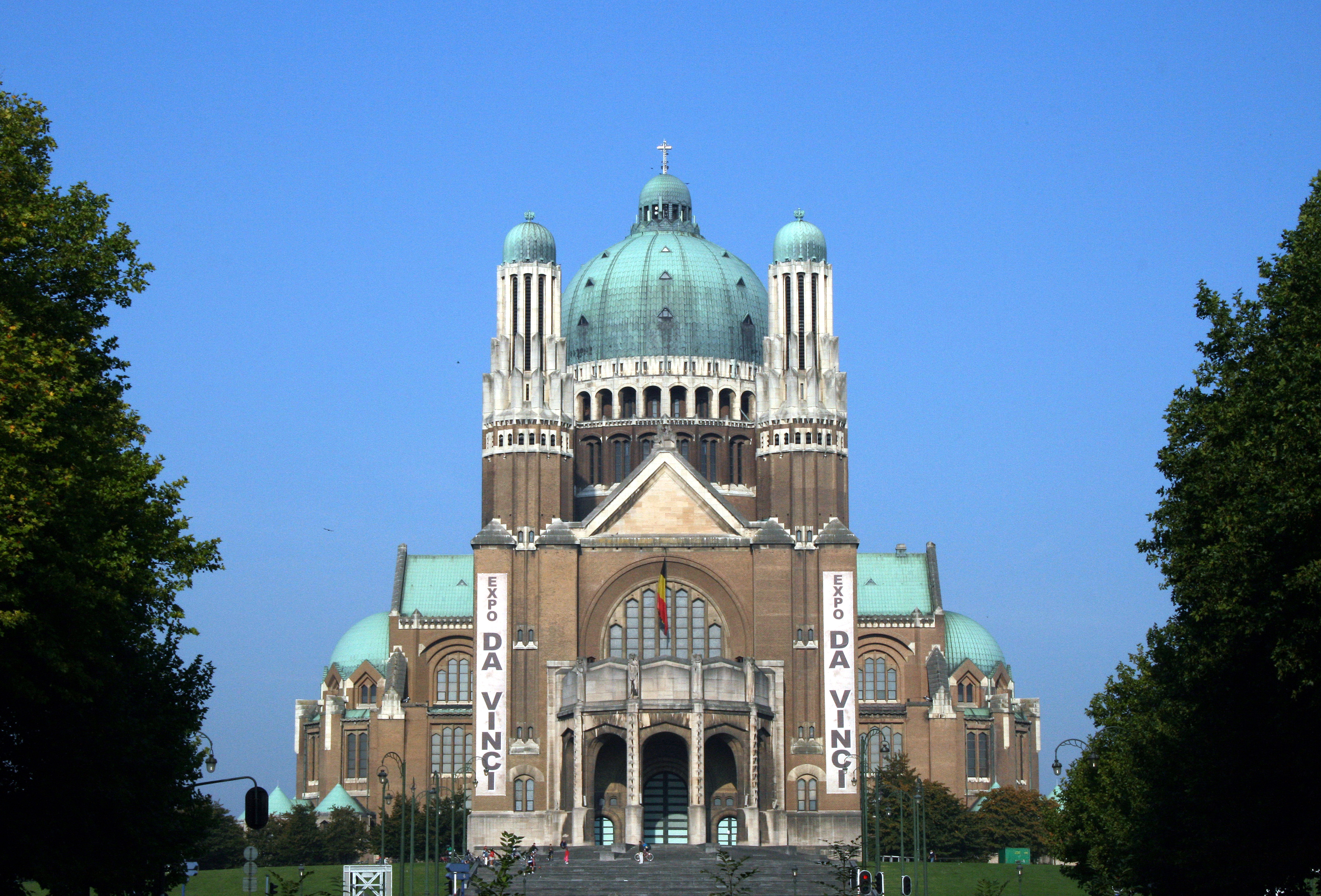 Basilica of the Sacred Heart, Koekelberg, Brussels